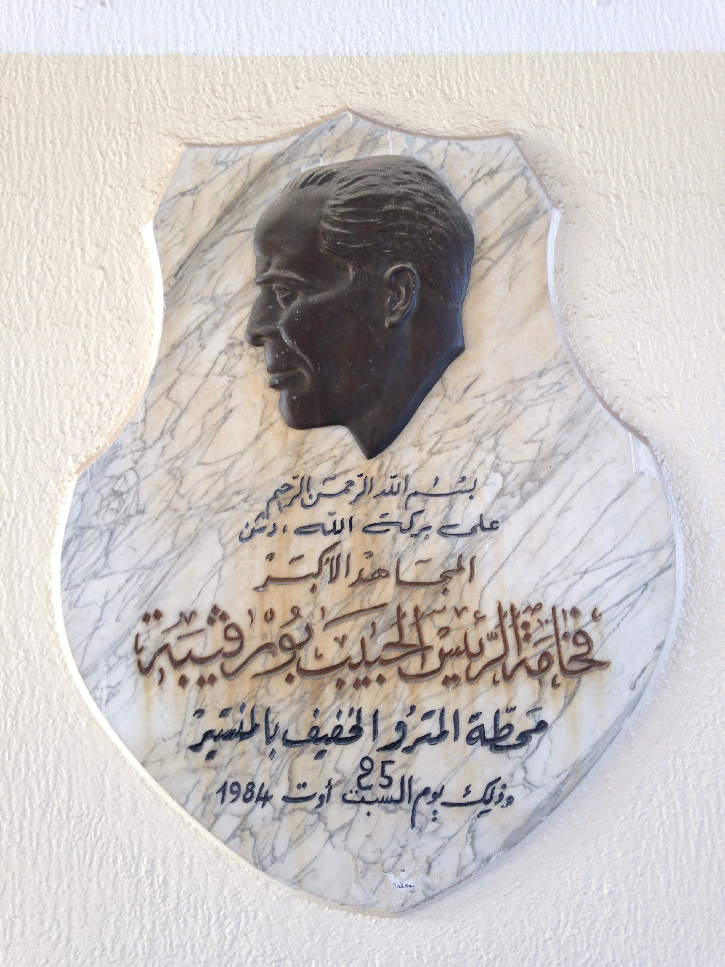 Plaque at La Gare Habib Bourguiba Monastir the main railway station in Monastir (Tunisia) indicating that the station has been inaugurated by the President of Tunisia Habib Bourguiba on the 25th of August 1984.